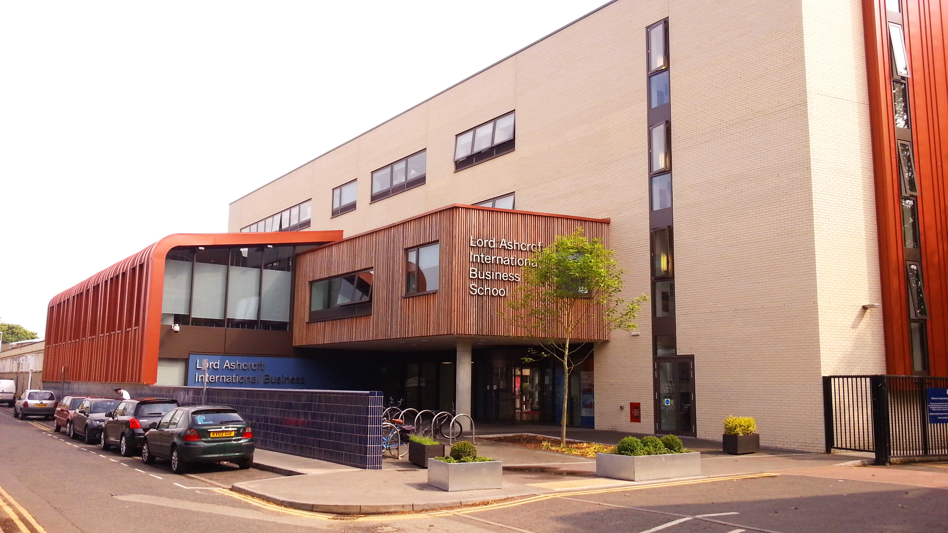 Front the Ashcroft International Business School in Cambridge.